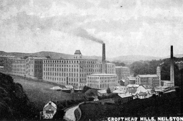 A photograph of Crofthead Mills at Neilston, in (East) Renfrewshire, Scotland, United Kingdom.